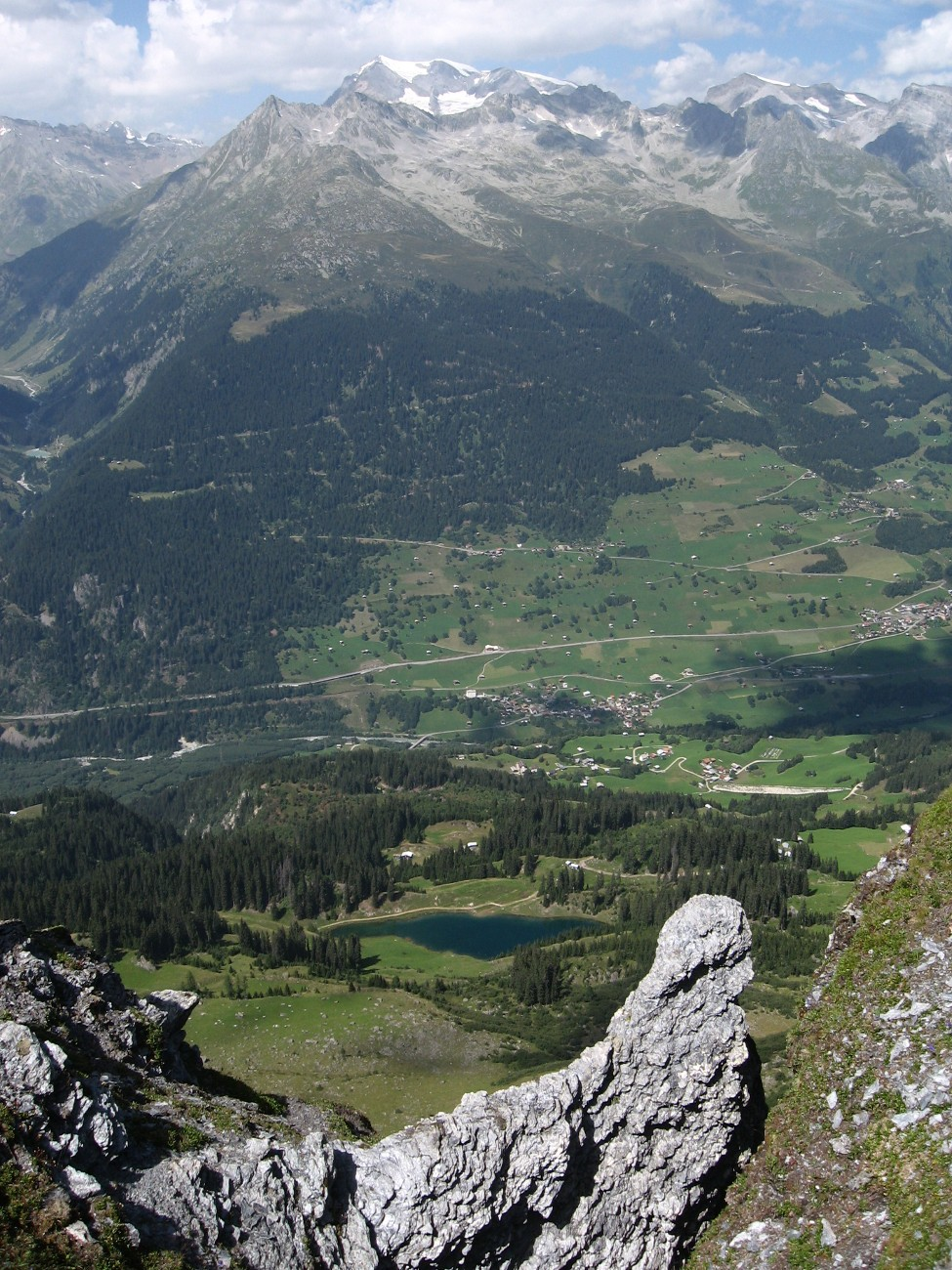 The lake called Lag da Laus lies in Graubünden above the tiny settlement of Laus (not visible in the forest). The village on the opposite side of the Valley of the Rhine is Cumpadials, the highest mountain on the horizon is Piz Russein/Tödi. Left edge of the picture is Val Russein with a small reservoir at Barguns. If you look at the landscape from Disentis you will see the landslide that formed the area of the lake.